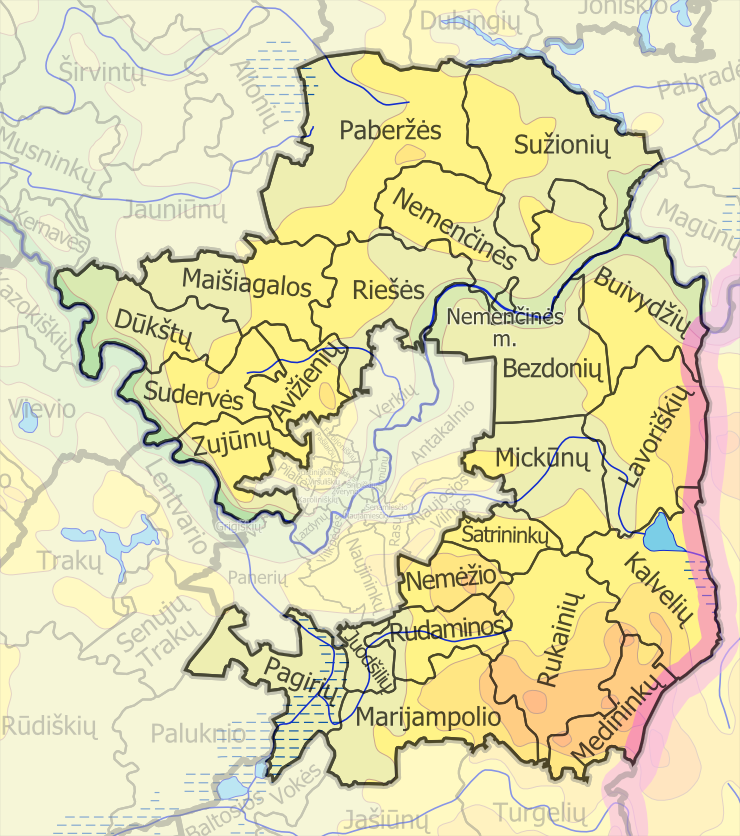 Subdivision of Vilnius district municipality in Lithuania